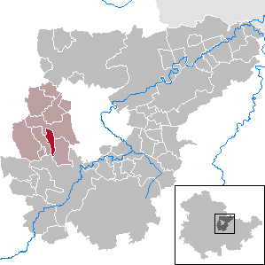 Isseroda in Thuringia - District Weimarer Land